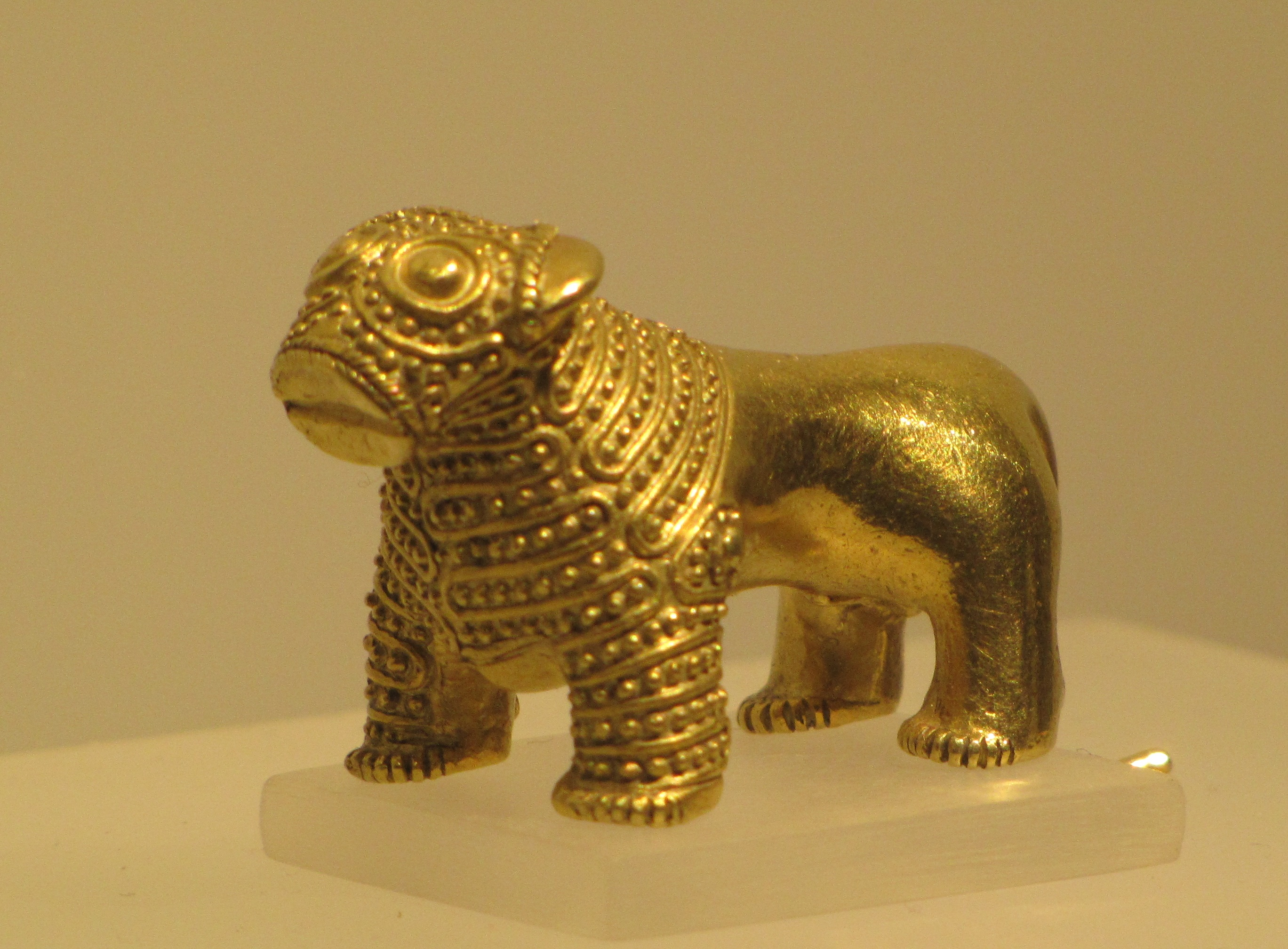 With thanks to the Georgian National Museum for allowing photography